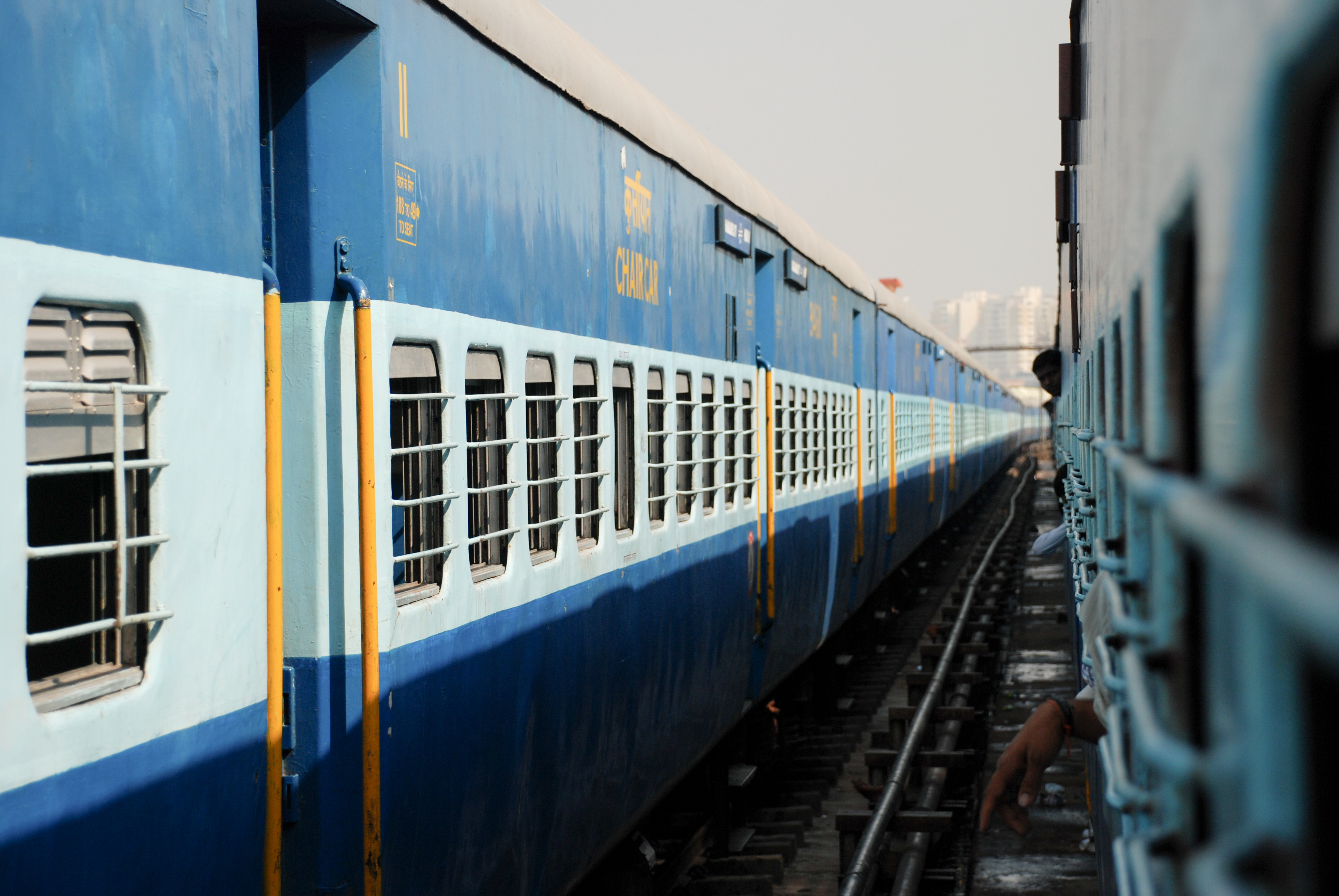 icf coaches